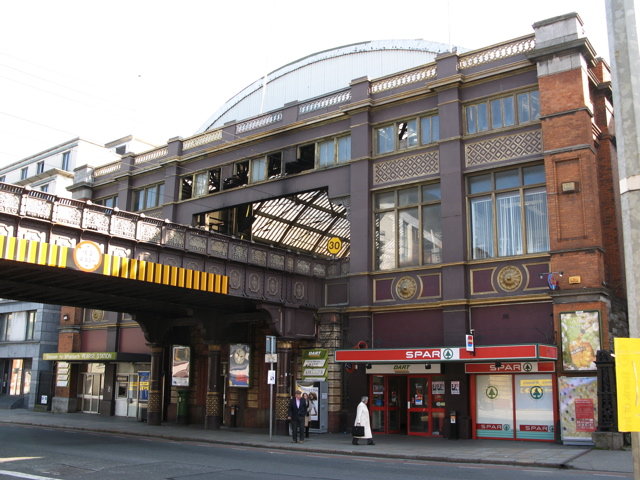 Pearse Station, Westland Row, Dublin The station was opened in 1834 as the city terminus of the Dublin & Kingstown Railway which was the first 'commuter' line in the world. The station was extended and rebuilt in the latter part of the 19th century when the present overall roof was installed. A feature of this rebuild allowed for the conversion of the terminus into a through station which eventually happened when the City of Dublin Junction Railway completed the final link up of all the city railways. The station has two through platforms (Platforms 1 & 2). There is also one terminal platform (Platform 3) which is occasionally used for special services. A fourth platform exists, but is unsuitable for modern passenger services and is used as a siding. This platform [and the now covered in adjacent 5th platform] has been used as a set for several movies, 'Michael Collins', 'Limerick' in Angela's Ashes, 'Galway', in Norah Barnacle and the 2005 remake, Lassie, starring Peter O'Toole. The station was previously called Westland Row Station, but was renamed in 1966 (after the Pearse Family, notably brothers Patrick and Willie) as part of the Easter Rising celebrations that saw many of the Republic of Ireland railway stations renamed.Although a number of Intercity lines operated out of the station in the past, nowadays no Intercity services regularly terminate at the station.